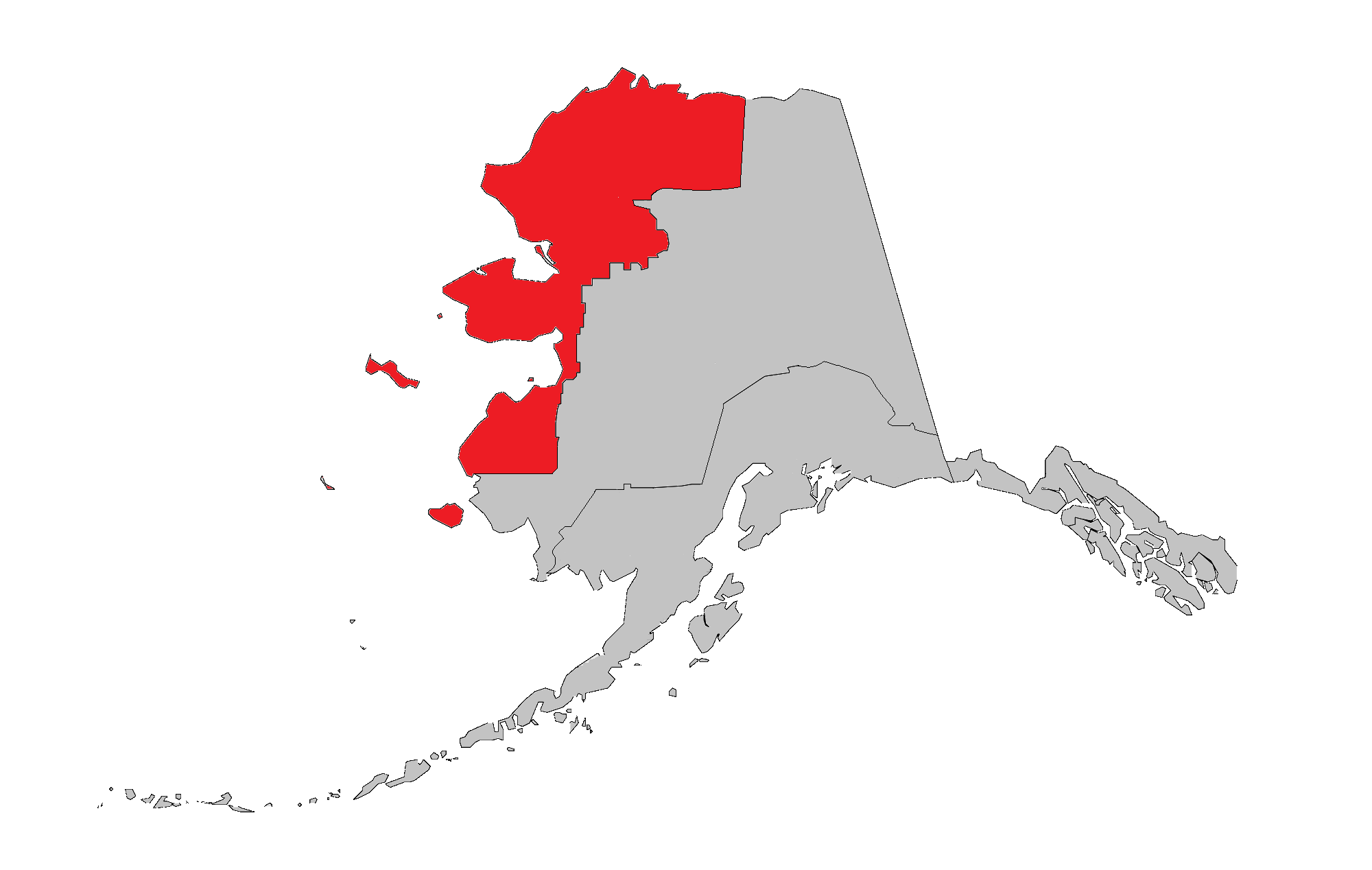 A map of the Second Judicial District (also refered to as Division #2) in red. Based on "Map of boroughs and census areas" av cmrivers.